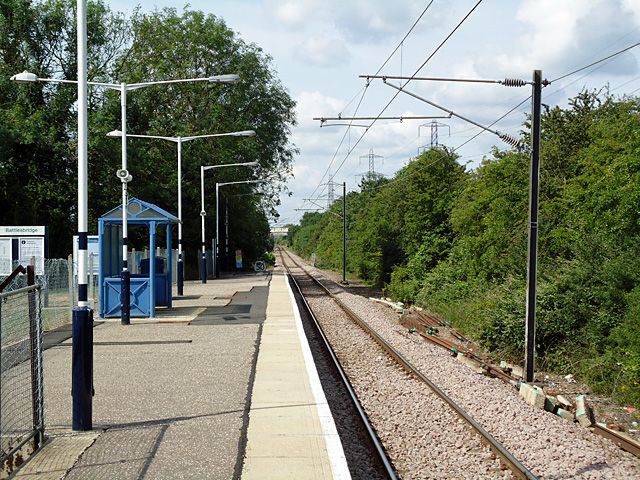 This is now a very simple station: all it has is one platform and the shelter, it doesn't even have a ticket machine. It is part of the Southminster Branch, now called The Crouch Valley Line: Originally built by the Great Eastern Railway and opened in 1889.